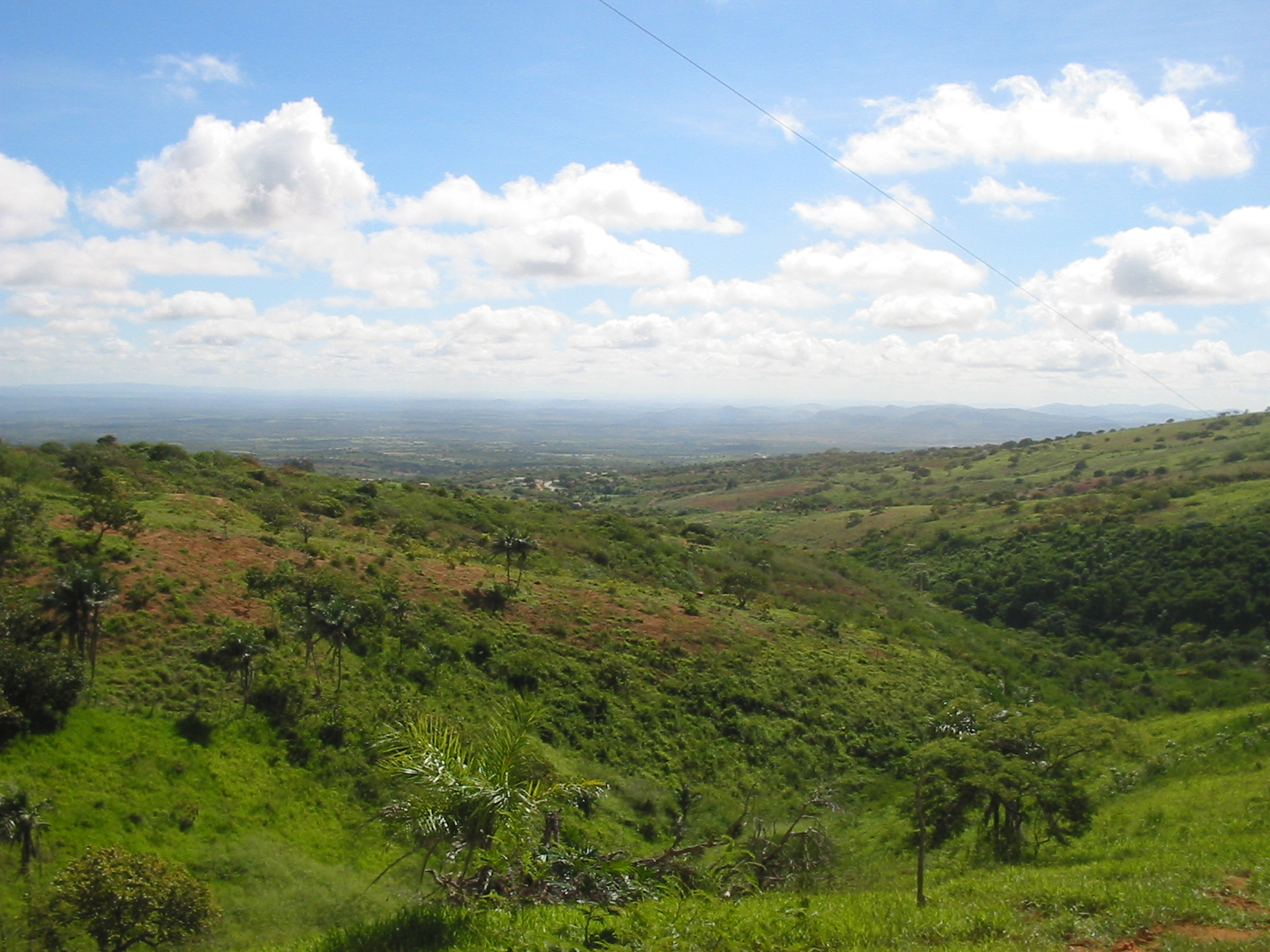 Riacho das Almas (Pernambuco), Brazil. General view of the town in "winter" (a sunny moment in a rainy period).